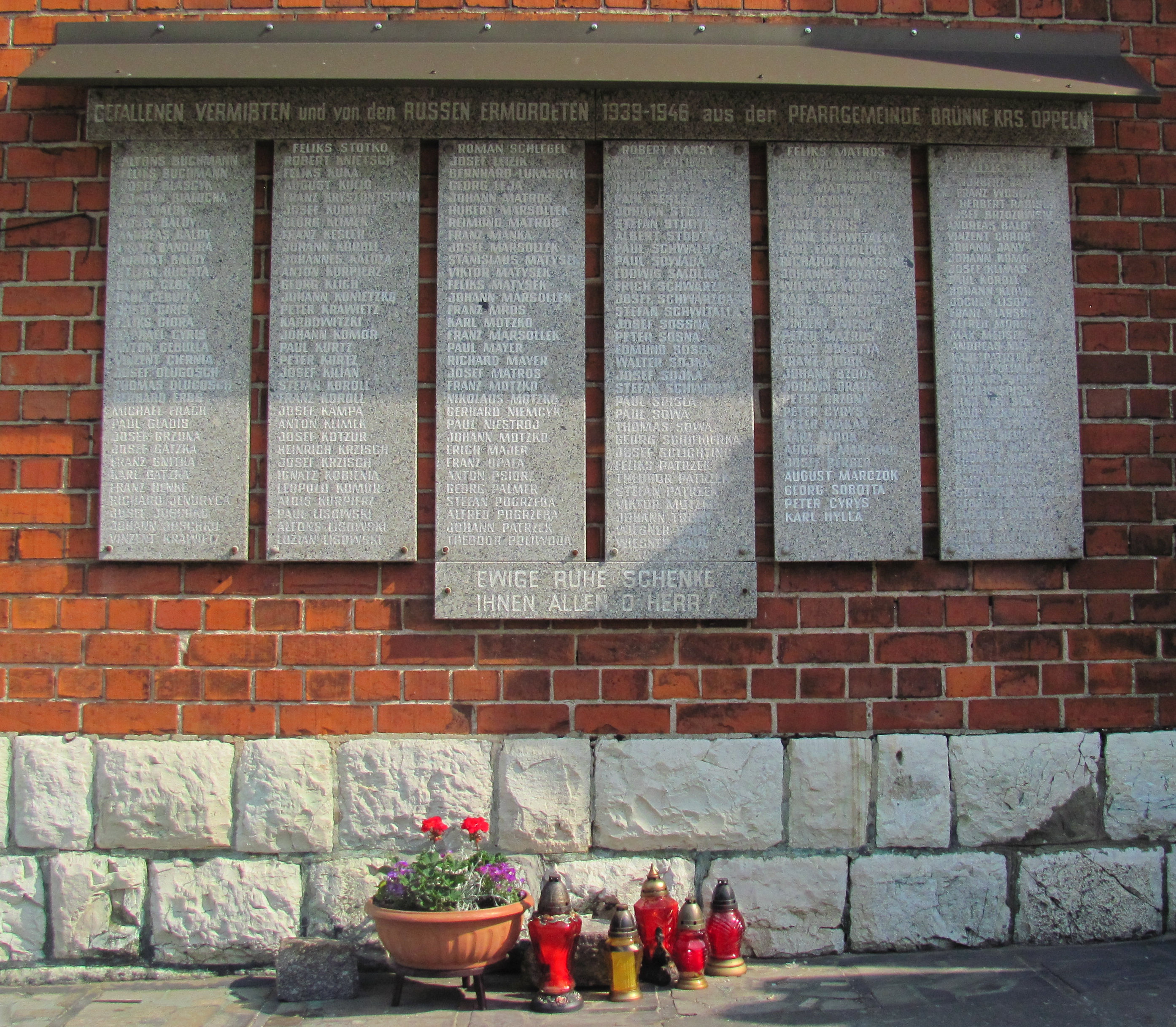 Memorial plaques for village citiziens fallen in World War II placed on the church front wall in Brynica